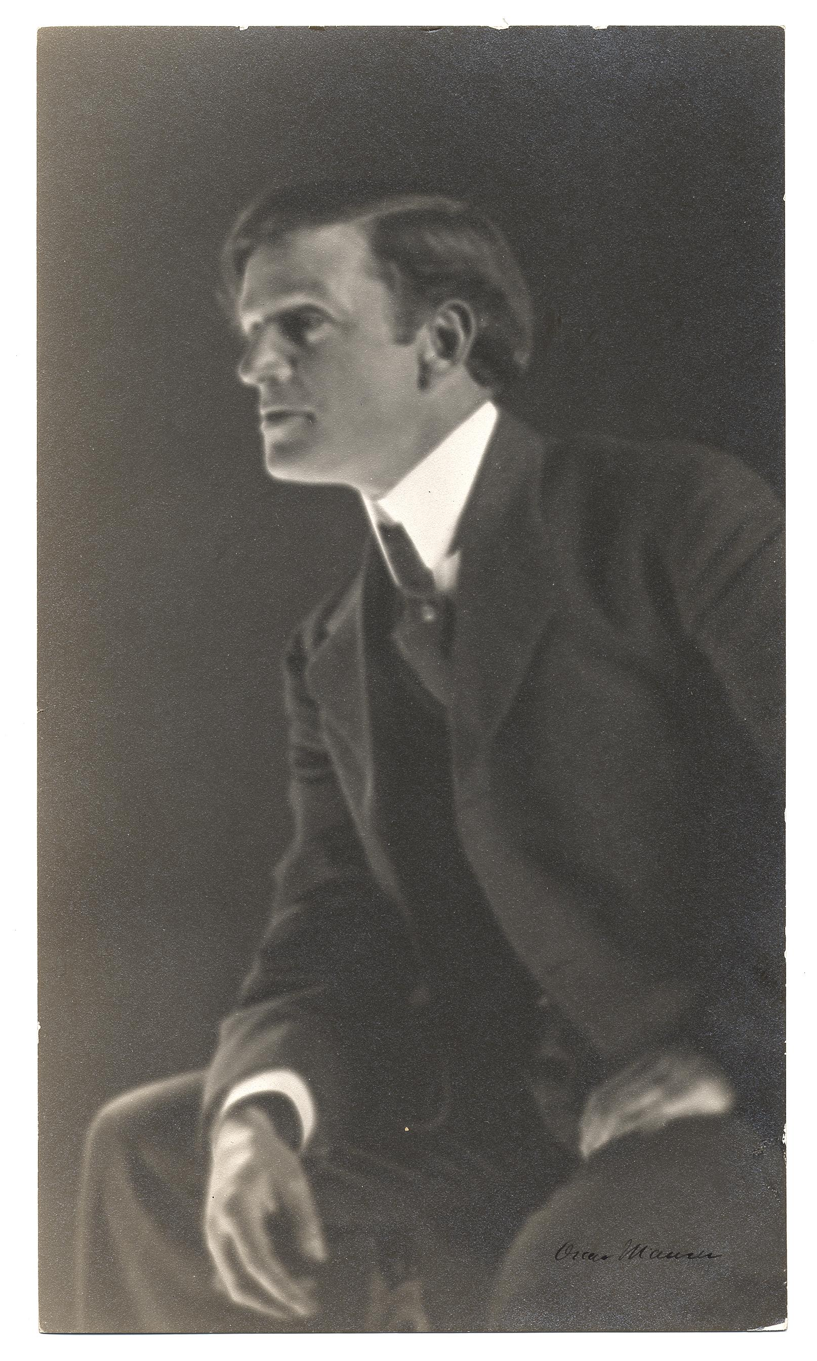 Description: Portrait of Peixotto in suit. Also identical photo mounted on board. Identification on verso (handwritten): Ernest C. Peixotto. Peixotto, Ernest, 1869-1940 Creator/Photographer: Oscar Maurer Medium: Black and white photographic print Dimensions: 17 cm x 10 cm Date: c. 1915 Persistent URL: Repository: Archives of American Art Collection: Charles Scribner's Sons Art Reference Department Records, c. 1865-1957 Accession number: aaa_charscrs_4315